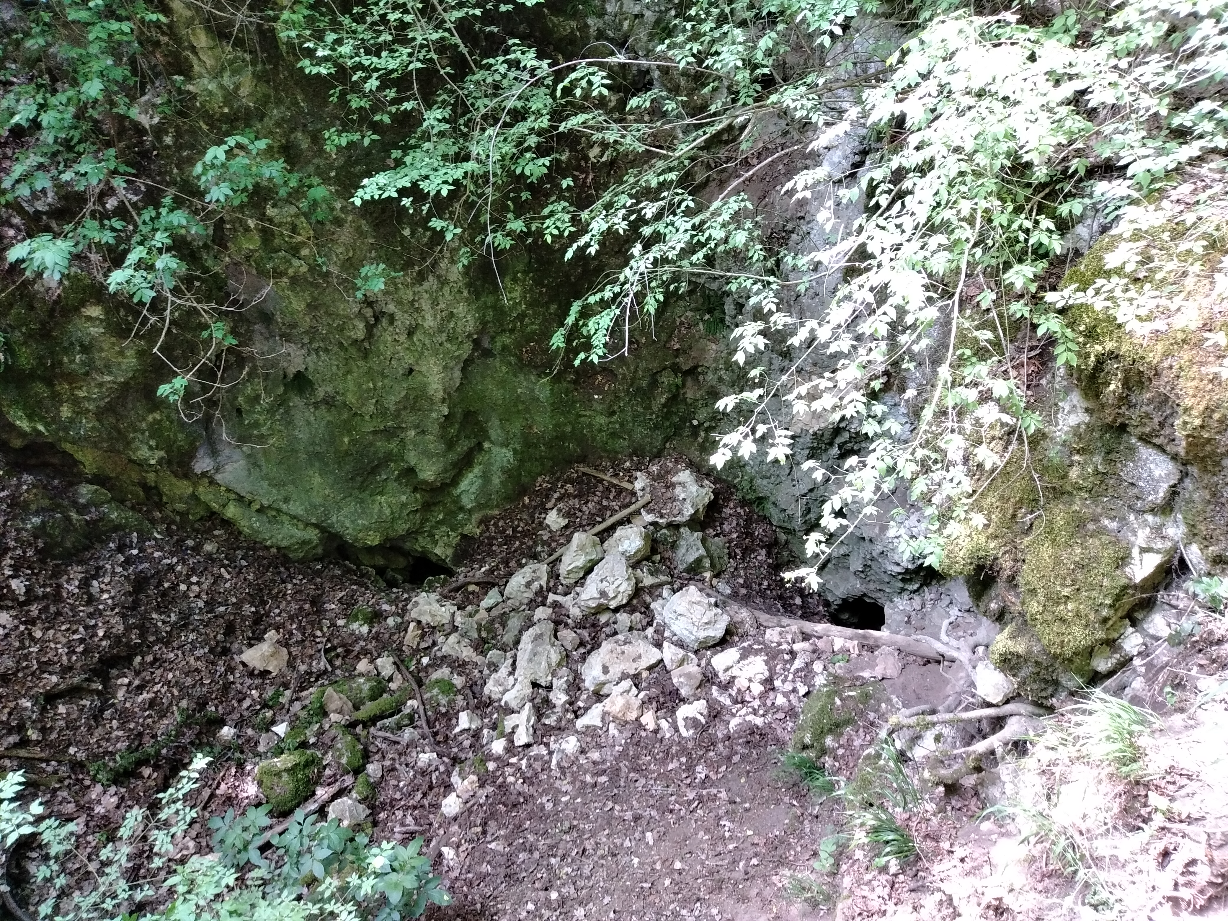 Entrance of Nagysuty Cave in Remeteszőlős.